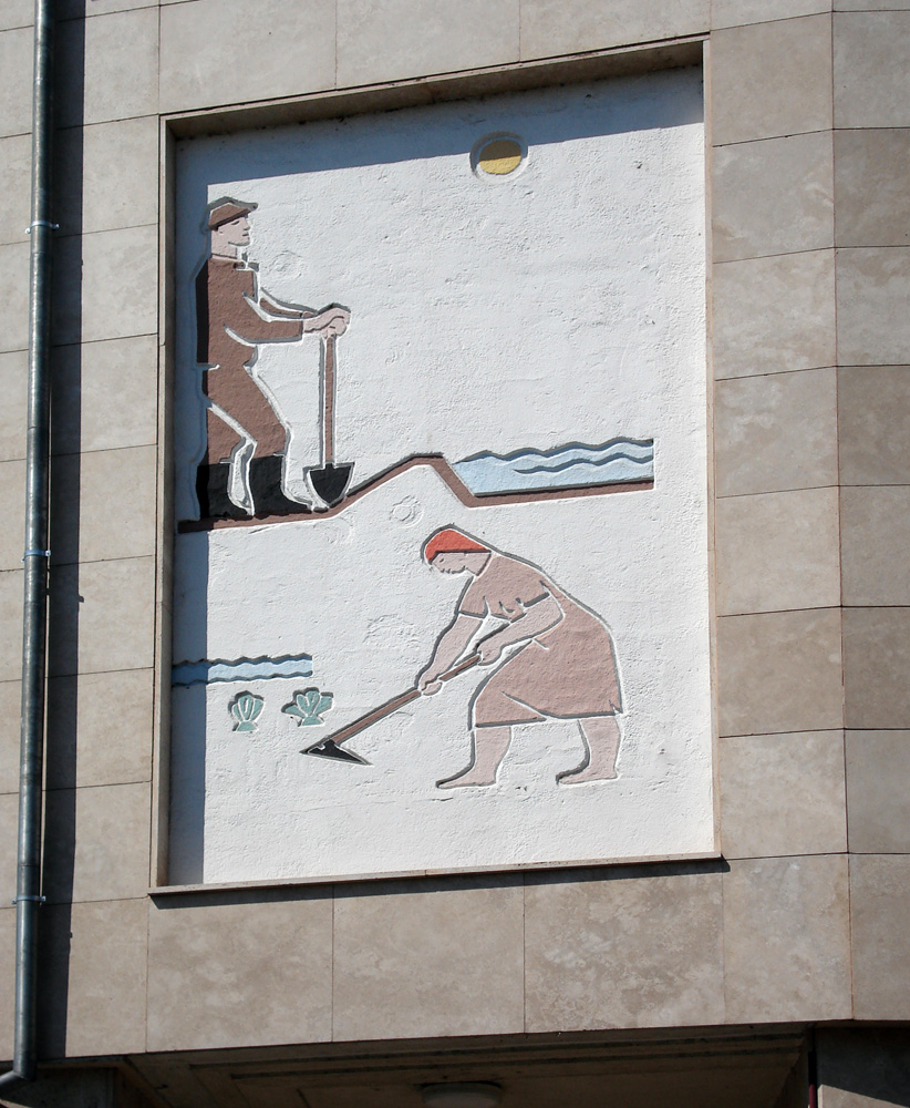 Mural (scrafitto) of Ernő Kunt (1920–1994). House of ÉKÖVIZIG, Miskolc, Hungary